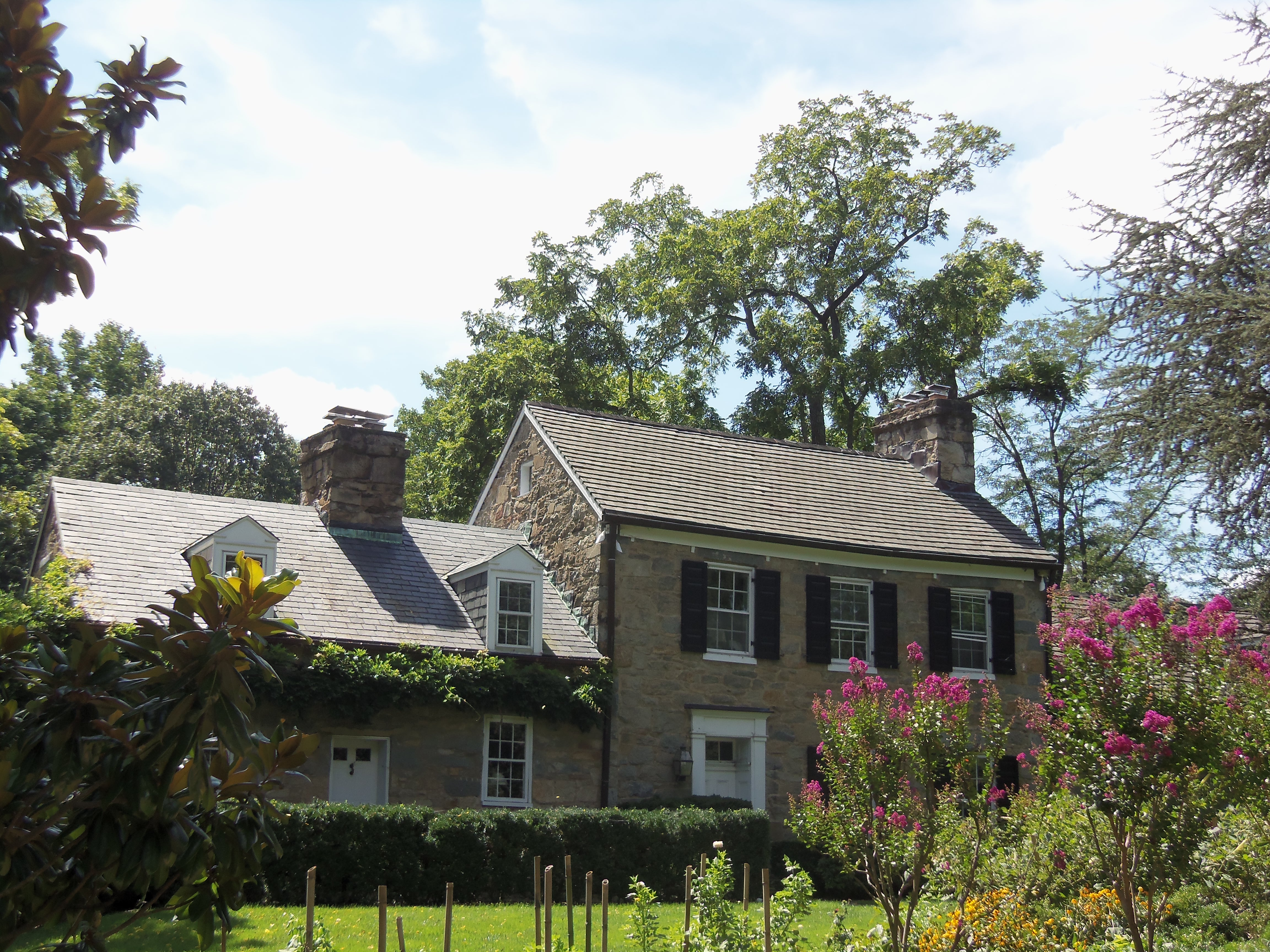 Milton is a house located in Bethesda, Maryland. Itis listed on the National Register of Historic Places.